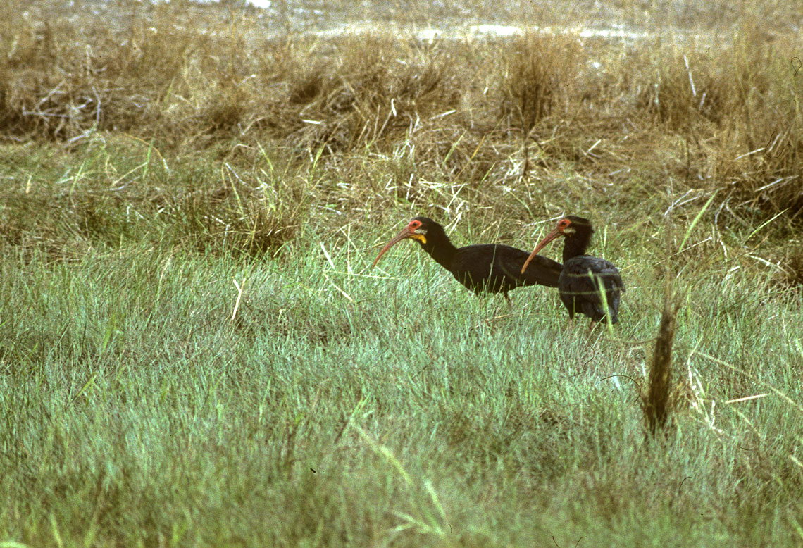 Sharp-tailed Ibis - Venezuela 90Image23